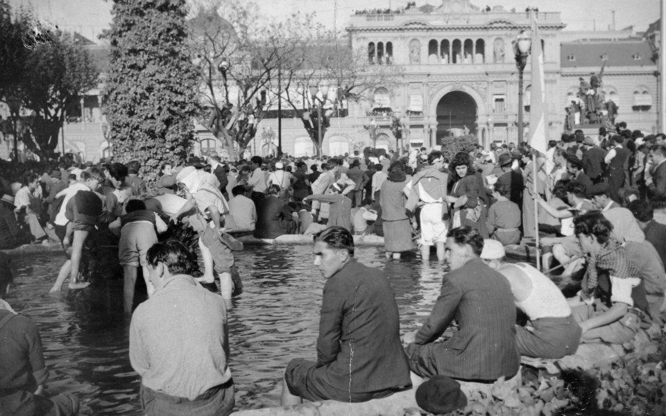 Workers at Plaza de Mayo of Buenos Aires during a demostration in support to Juan D. Perón.